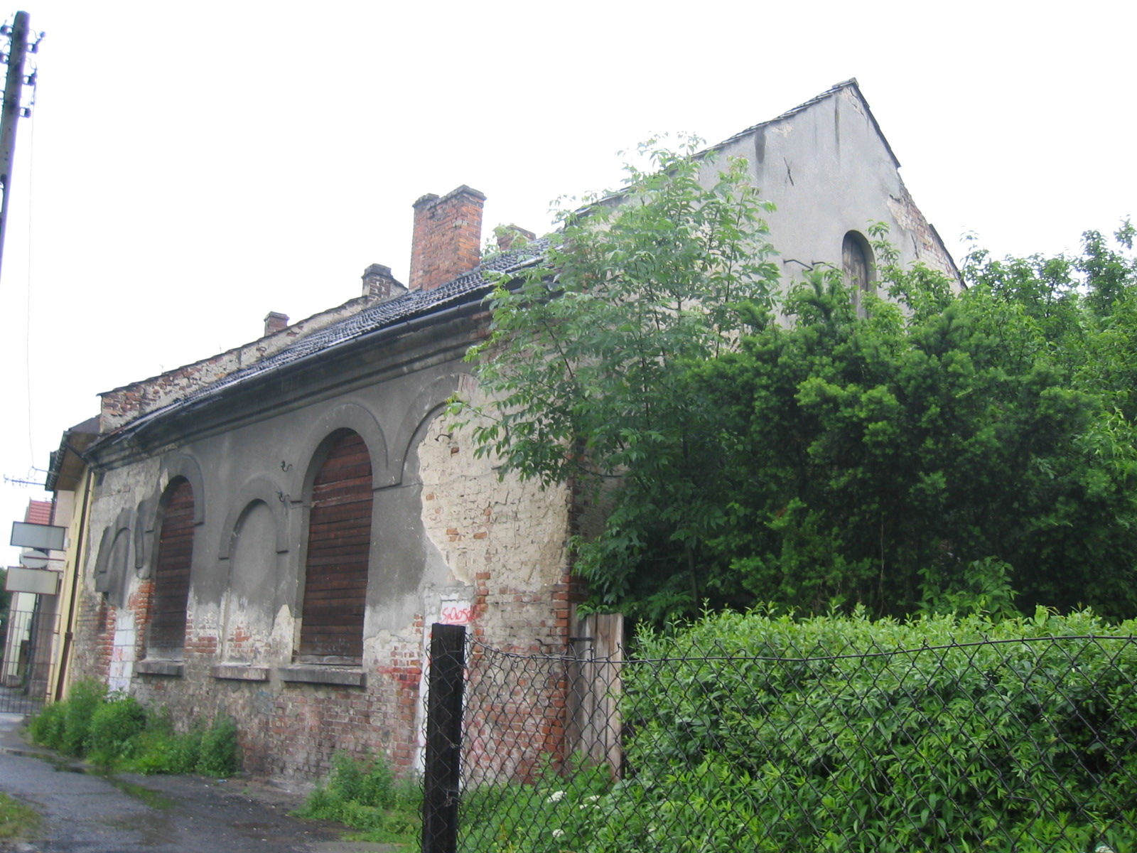 Synagogue in Krzeszowice